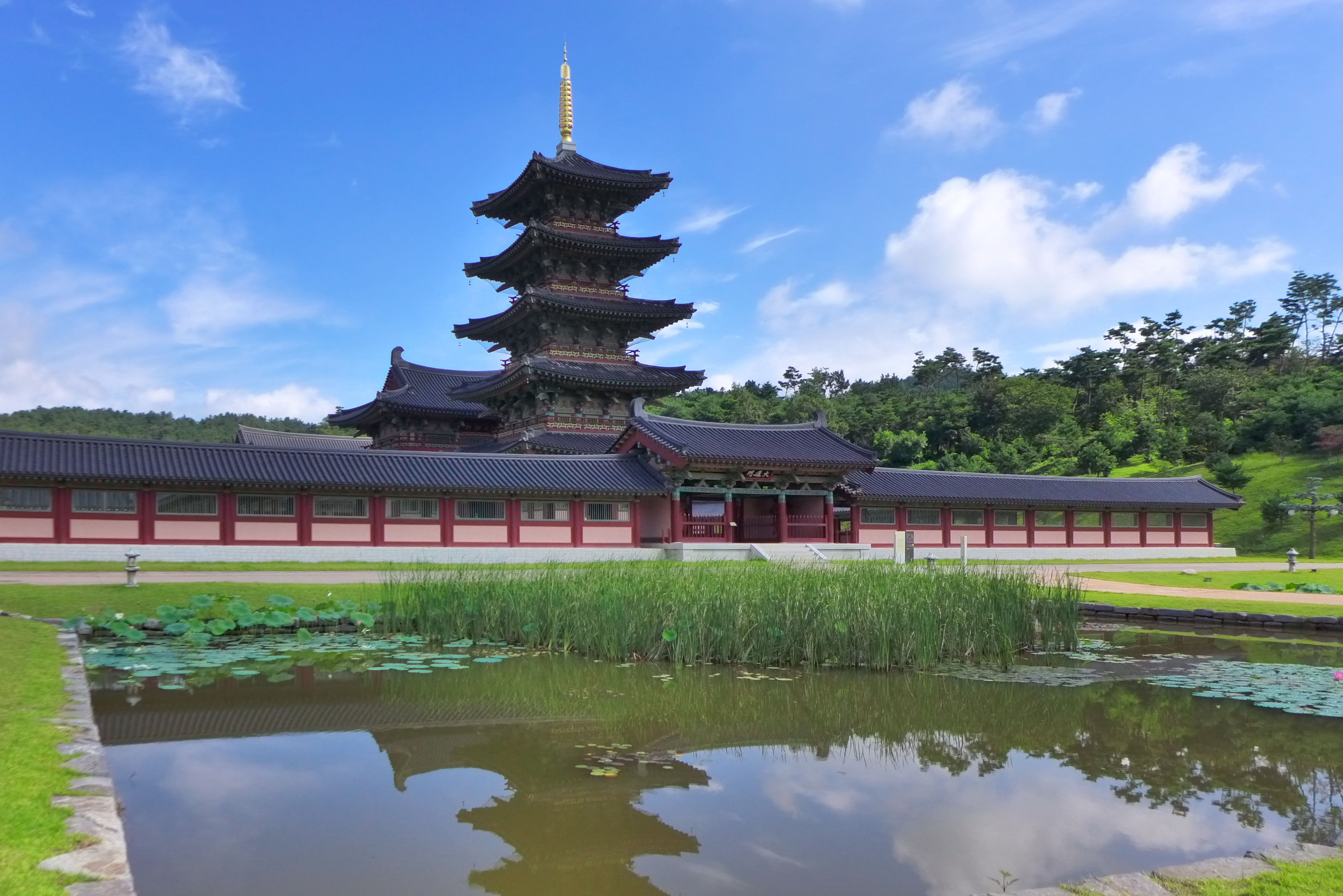 Baekje Cultural Land, Buyeo-gun, Chungcheongnam-do, South Korea